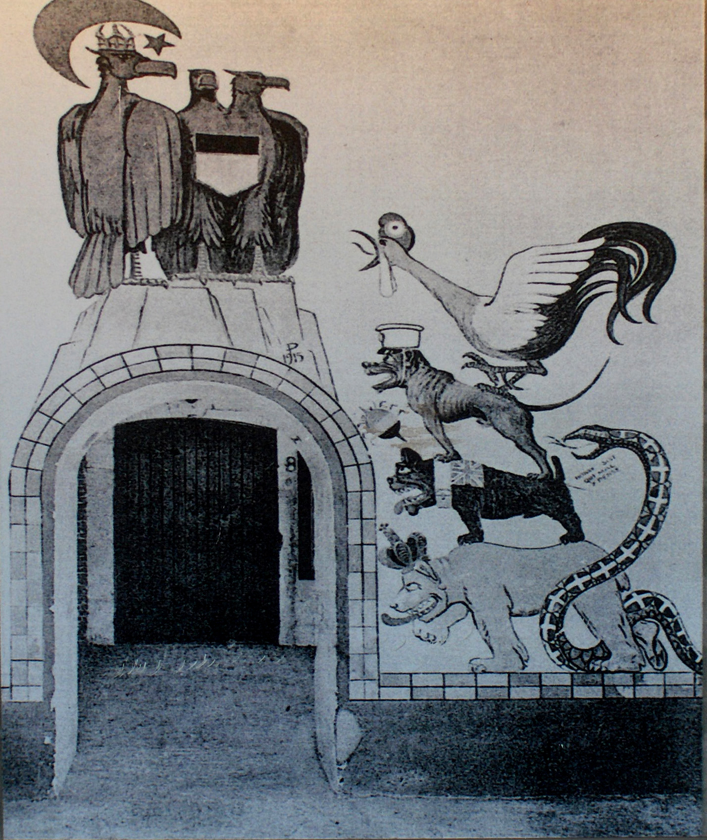 Town Musicians of Bremen, painting by Heinrich-Otto Pieper (WWI), Fort Napoleon, Oostende, Belgium